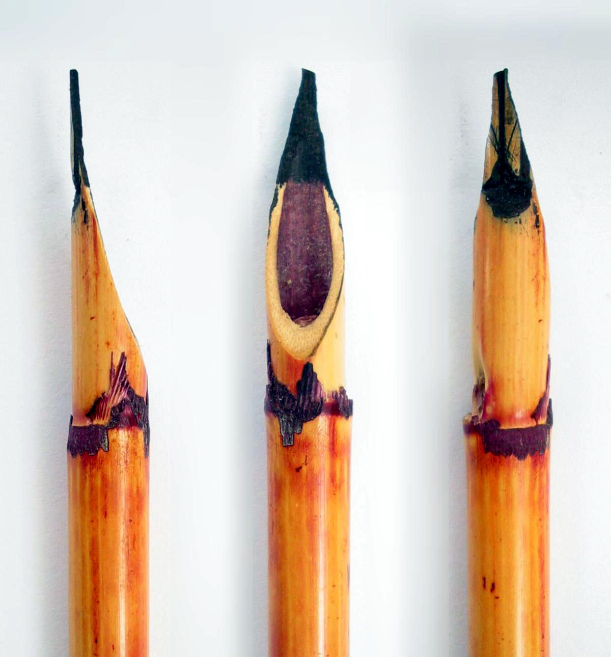 A qalam from the side bottom and top